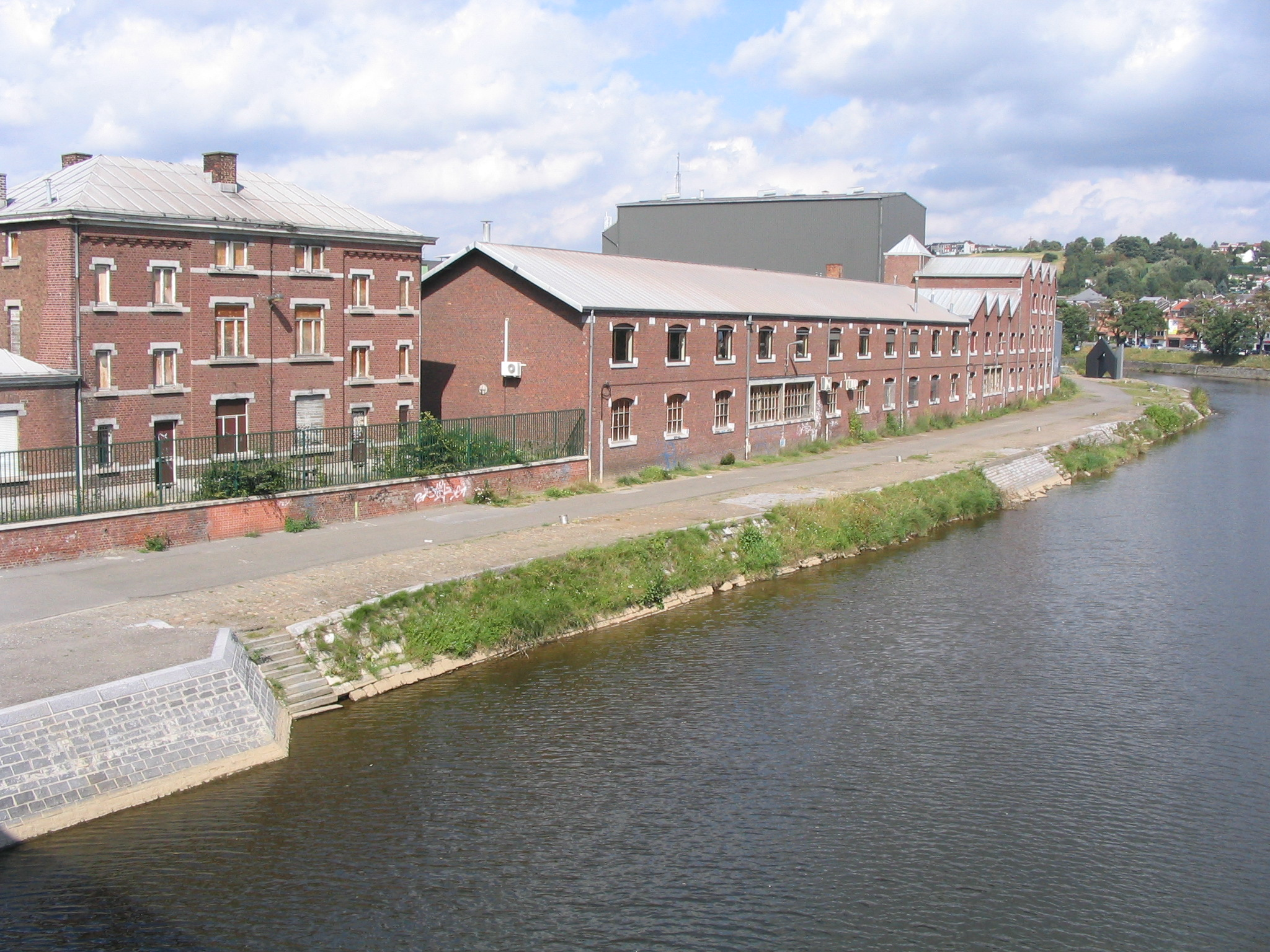 Vieille-Montagne factory, Angleur Liege Belgium